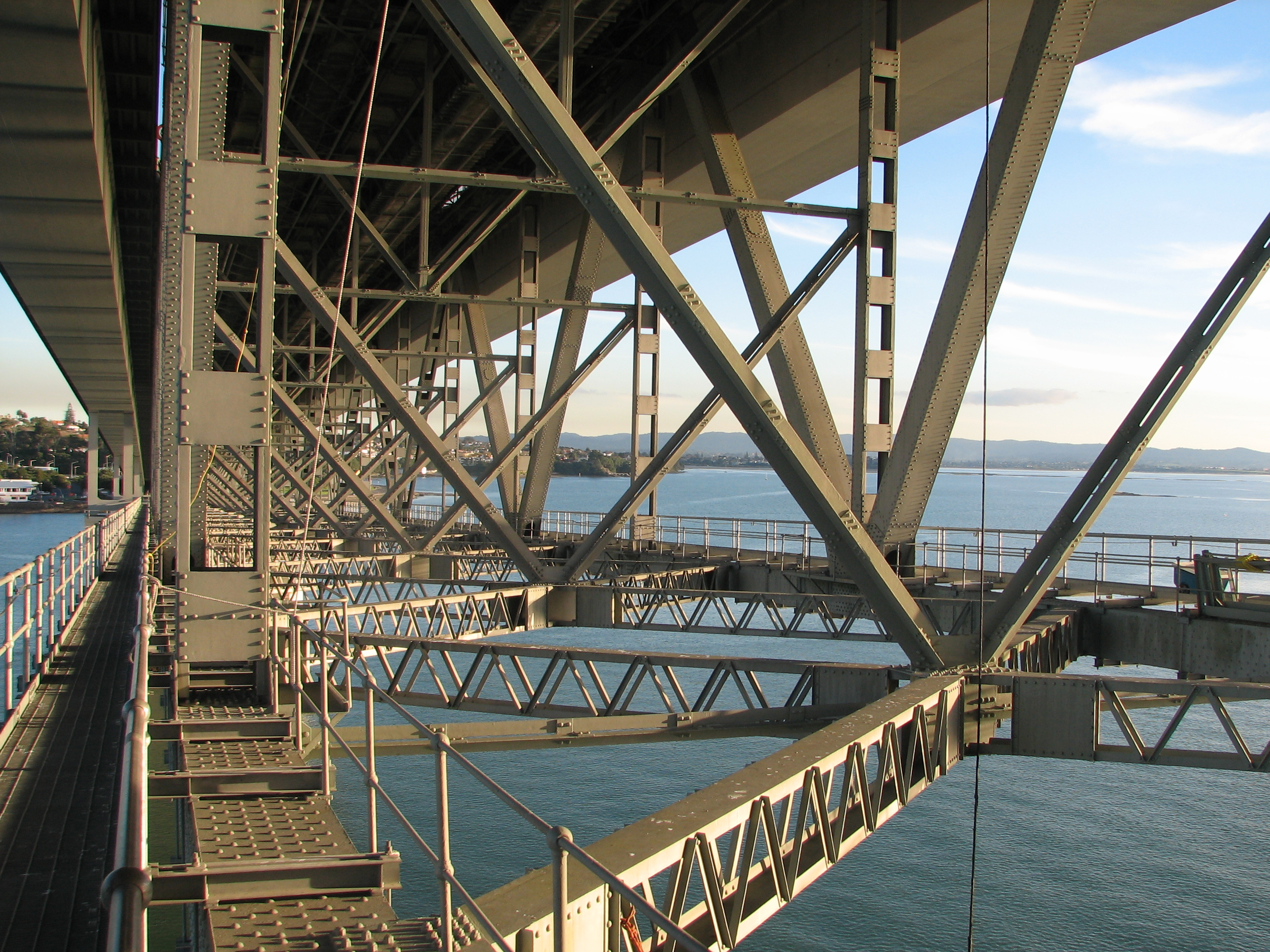 Taken by Hossen27 on the catwalk of Auckland Harbour Bridge, New Zealand.